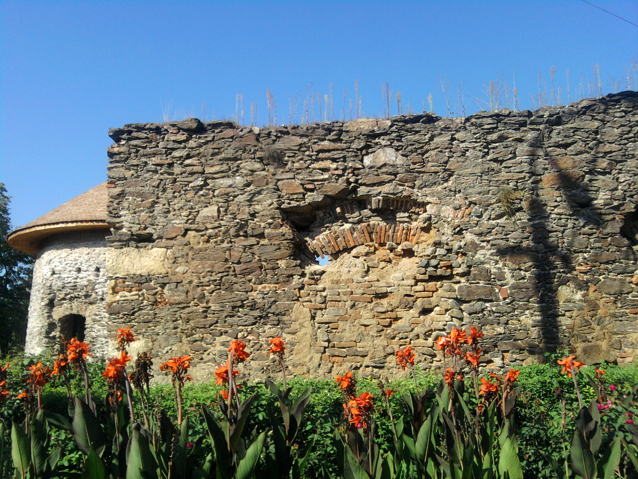 Báthory Castle in Şimleu Silvaniei